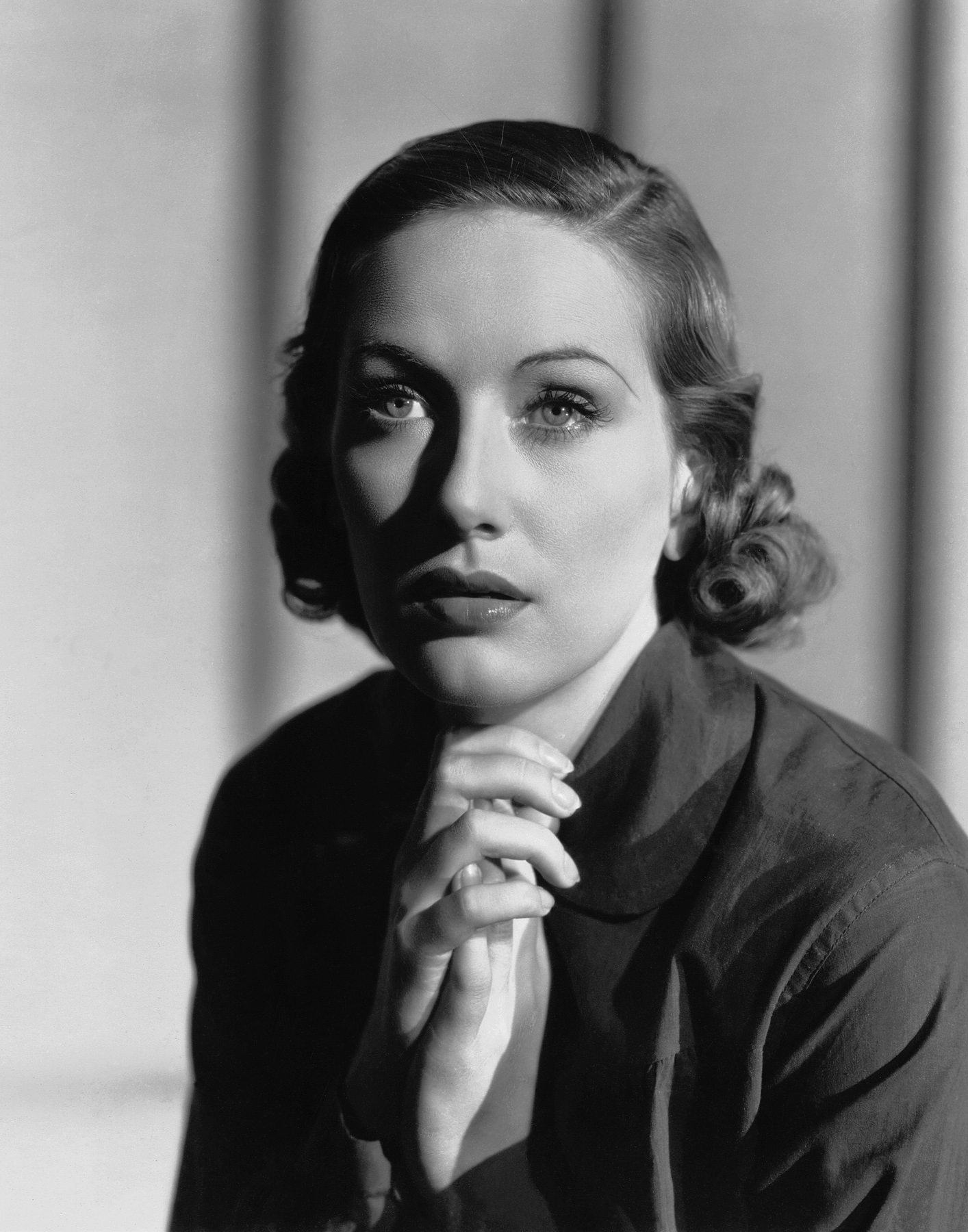 Tala Birell in She's Dangerous (1937) - publicity still